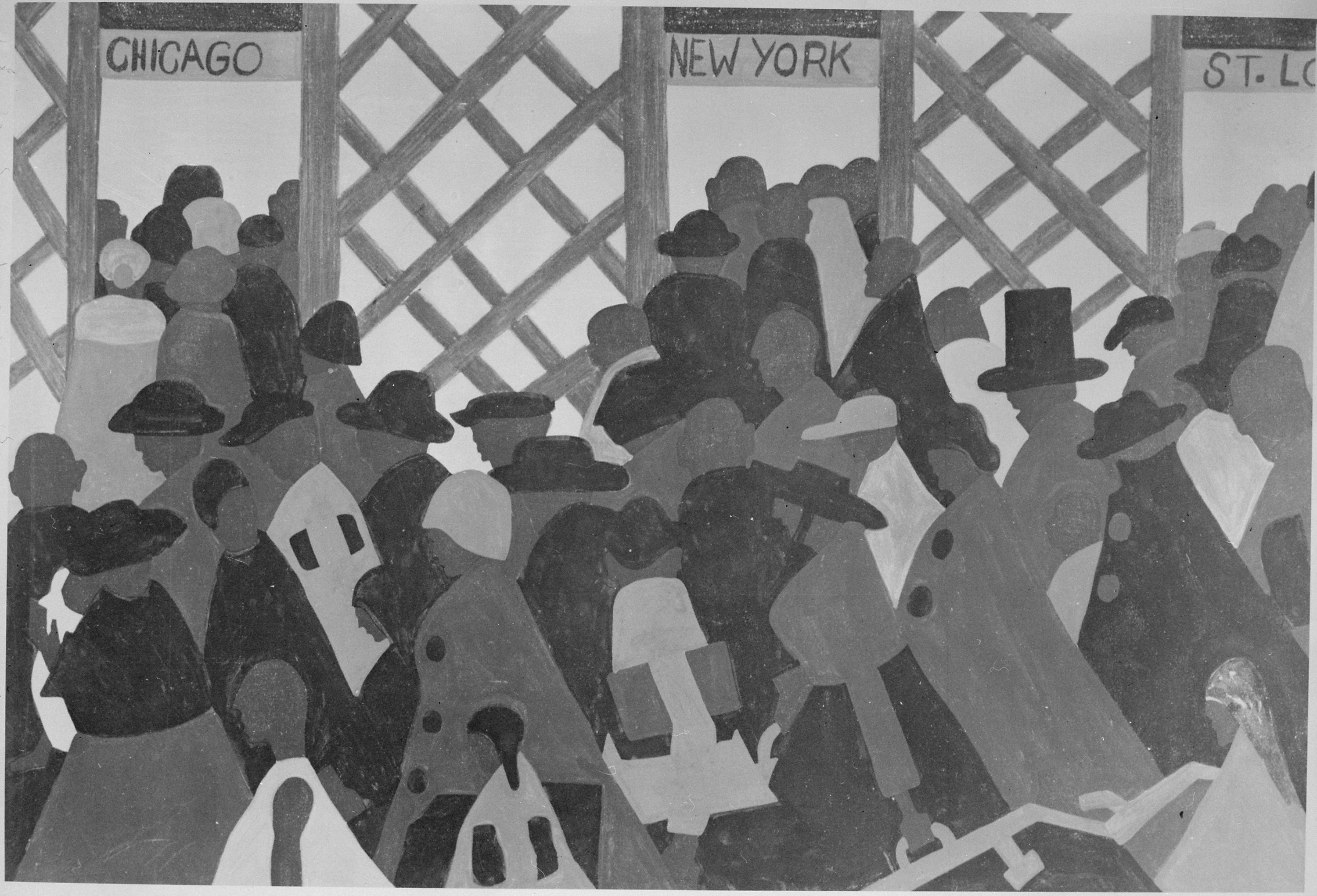 General notes: Painting.